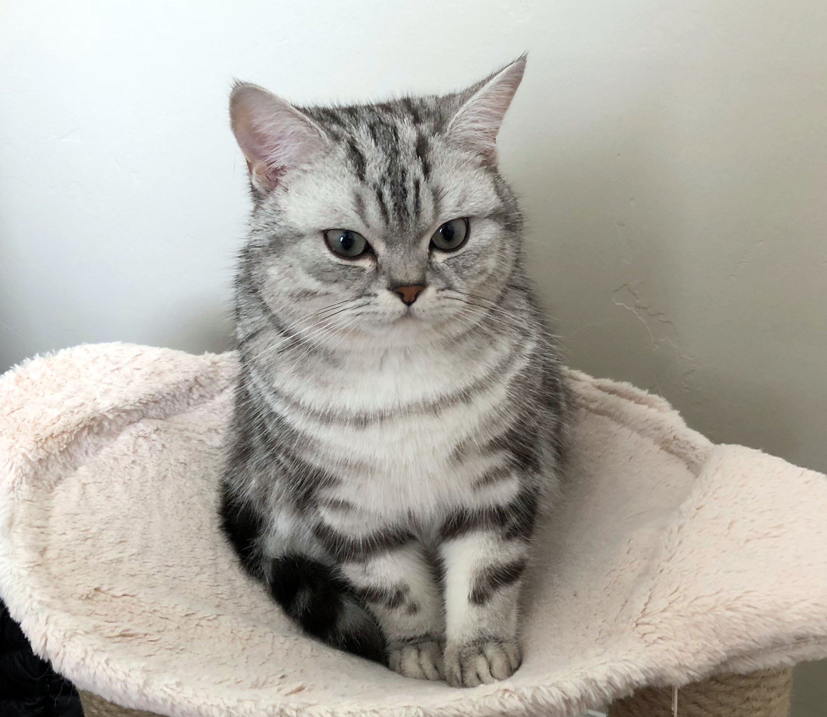 6-month-old silver classic tabby male kitten